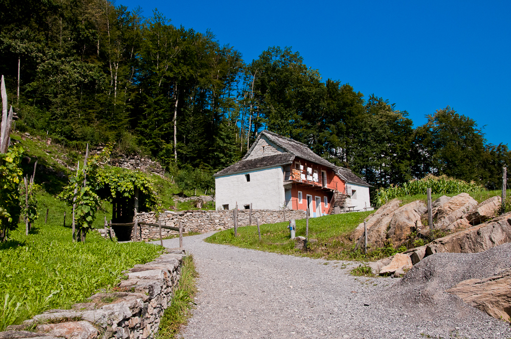 Ballenberg – Switzerland as it used to be. More than one hundred century-old buildings from all over Switzerland, 250 farmyard animals, traditional, old-time gardens and fields, demonstrations of local crafts and many special events create a vivid impression of rural life in days gone by. Ballenberg is indeed unique.